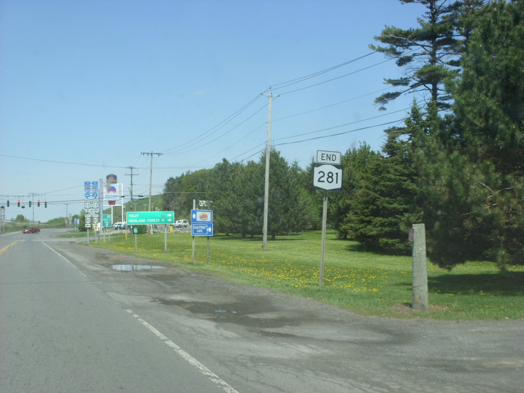 New York State Route 281 northbound, approaching the northern terminus at New York State Route 80 and U.S. Route 11 in the town of Tully, New York.